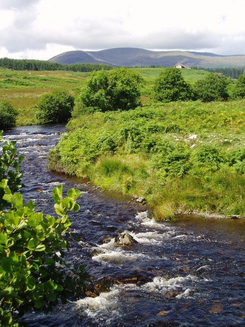 The Polharrow Burn and Green House. Looking towards Corserine and the Green House from Knockreoch Bridge over the Polharrow Burn.